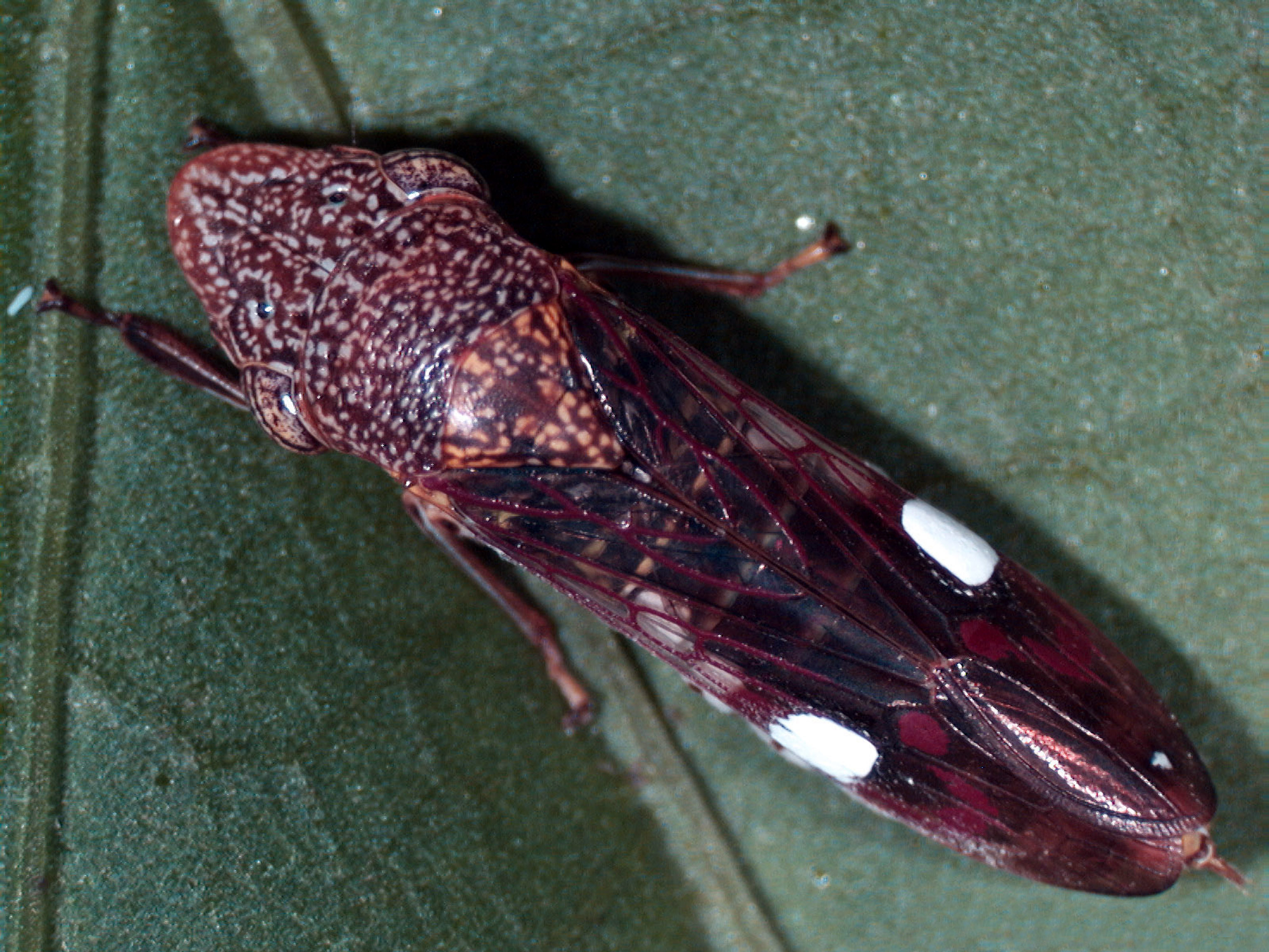 Homalodisca vitripennis Germar, 1821 Common Name: glassy-winged sharpshooter Photographer: Reyes Garcia III, USDA Agricultural Research Service, United States Descriptor: Adult(s) Description: The glassy-winged sharpshooter is the culprit behind the spread of Pierce's disease among grapevines. The insect infects the plant with the bacterium Xylella fastidiosa when it feeds on the sap from the xylem tissue of a vine. Image taken in: United States